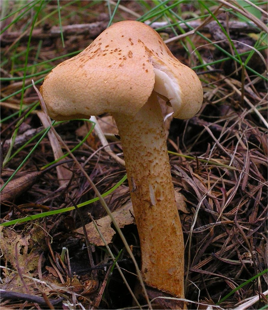 Tricholoma psammopus (Kalchbr.) Quél. Image location: Hörnefors, Västerbotten, Sweden Recognized by sight: Growing with Larix For more information about this, see the observation page at Mushroom Observer.